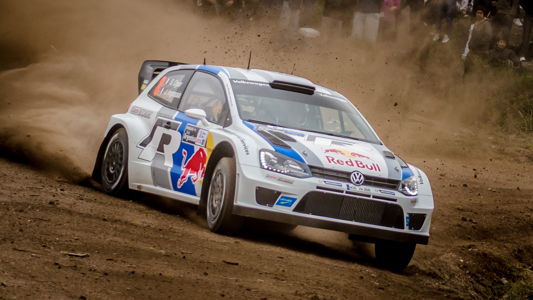 Sébastien Ogier & Julien Ingrassia onboard Volkswagen Polo R WRC 2013 during Argentina stage.